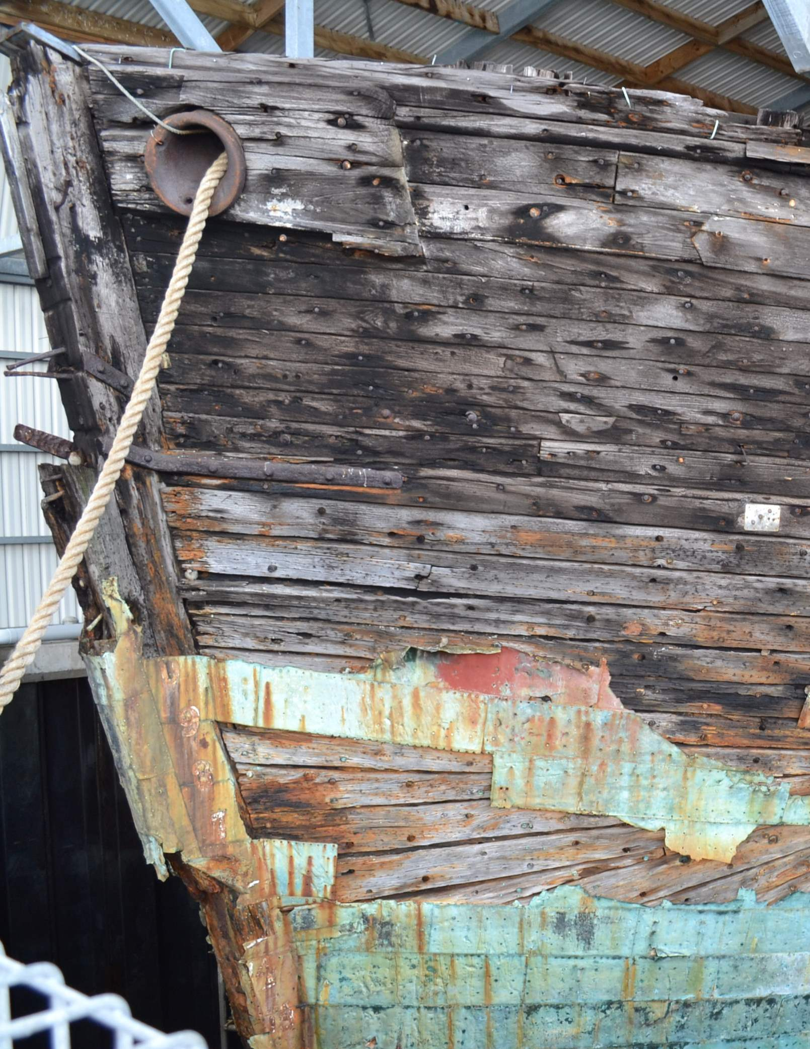 Bow of the ship Edwin Fox, showing condition of timbers and copper plating.